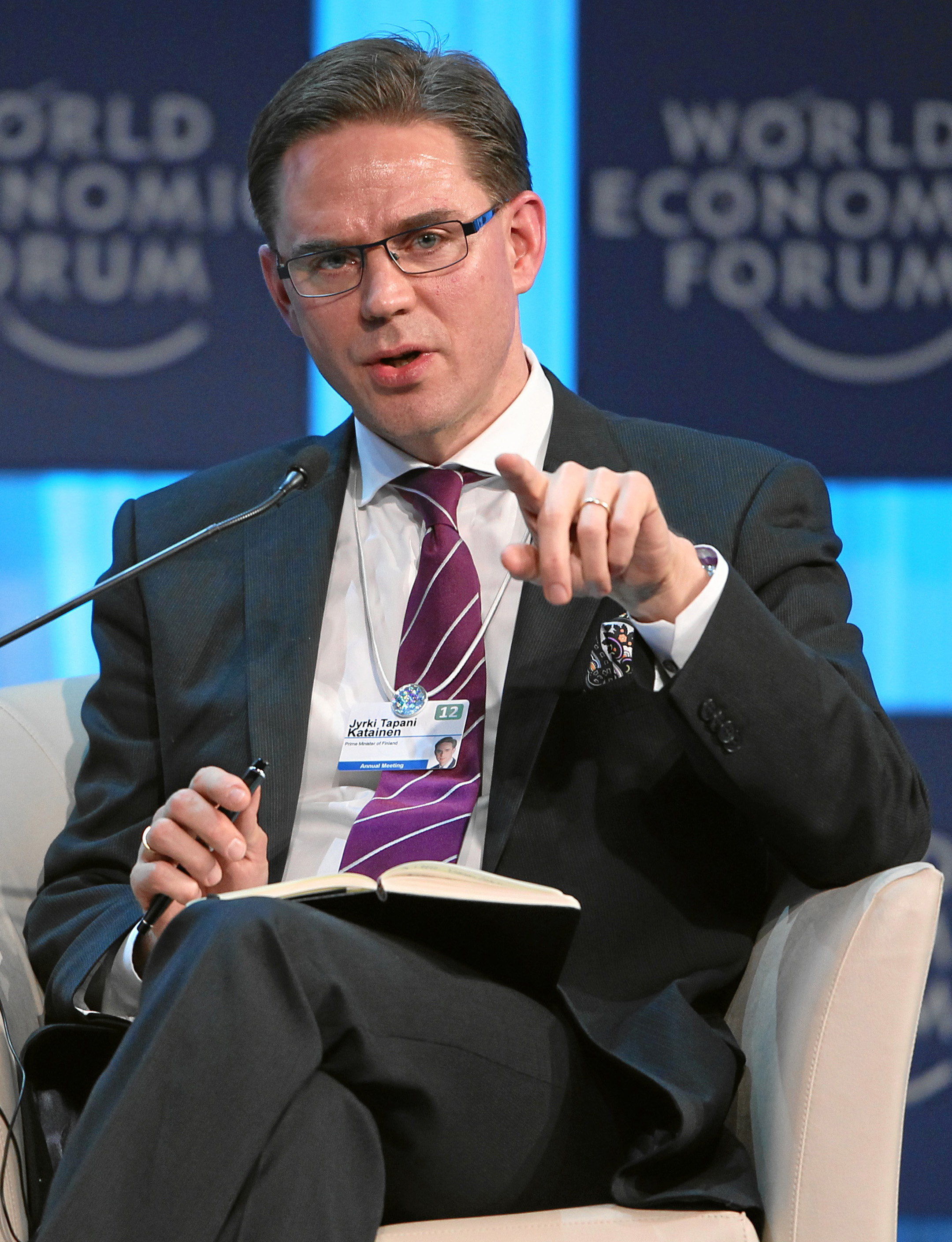 DAVOS/SWITZERLAND, 26JAN12 - Jyrki Tapani Katainen, Prime Minister of Finland speaks during the session 'Rebuilding Europe' at the Annual Meeting 2012 of the World Economic Forum at the congress centre in Davos, Switzerland, January 26, 2012.. . Copyright by World Economic Forum. by Moritz Hager